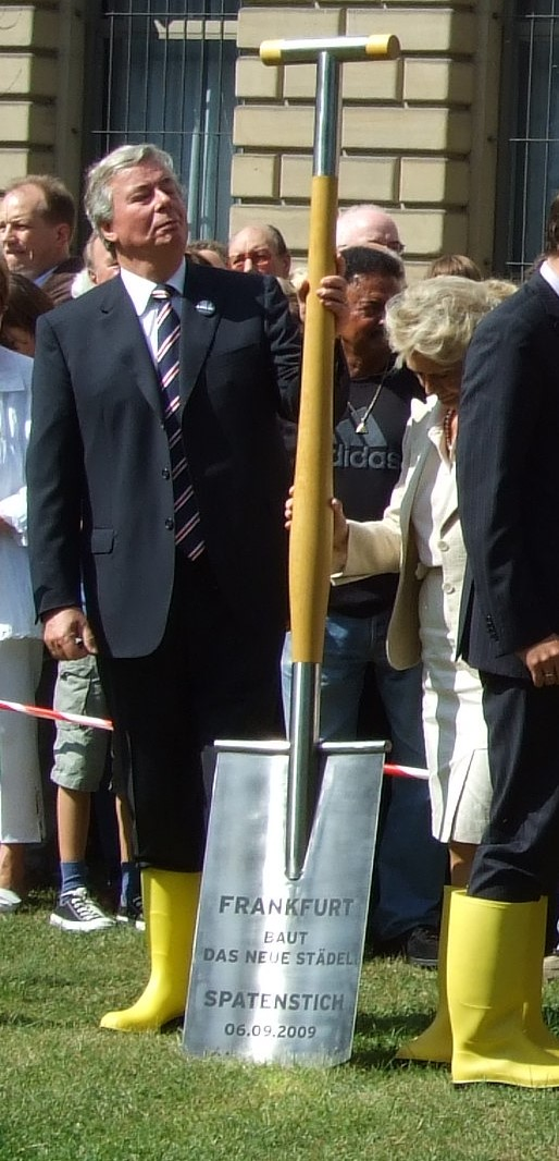 Nikolaus Schweickart, Chairman of the Board of Trustees Städel Museum, 2009, Frankfurt am Main